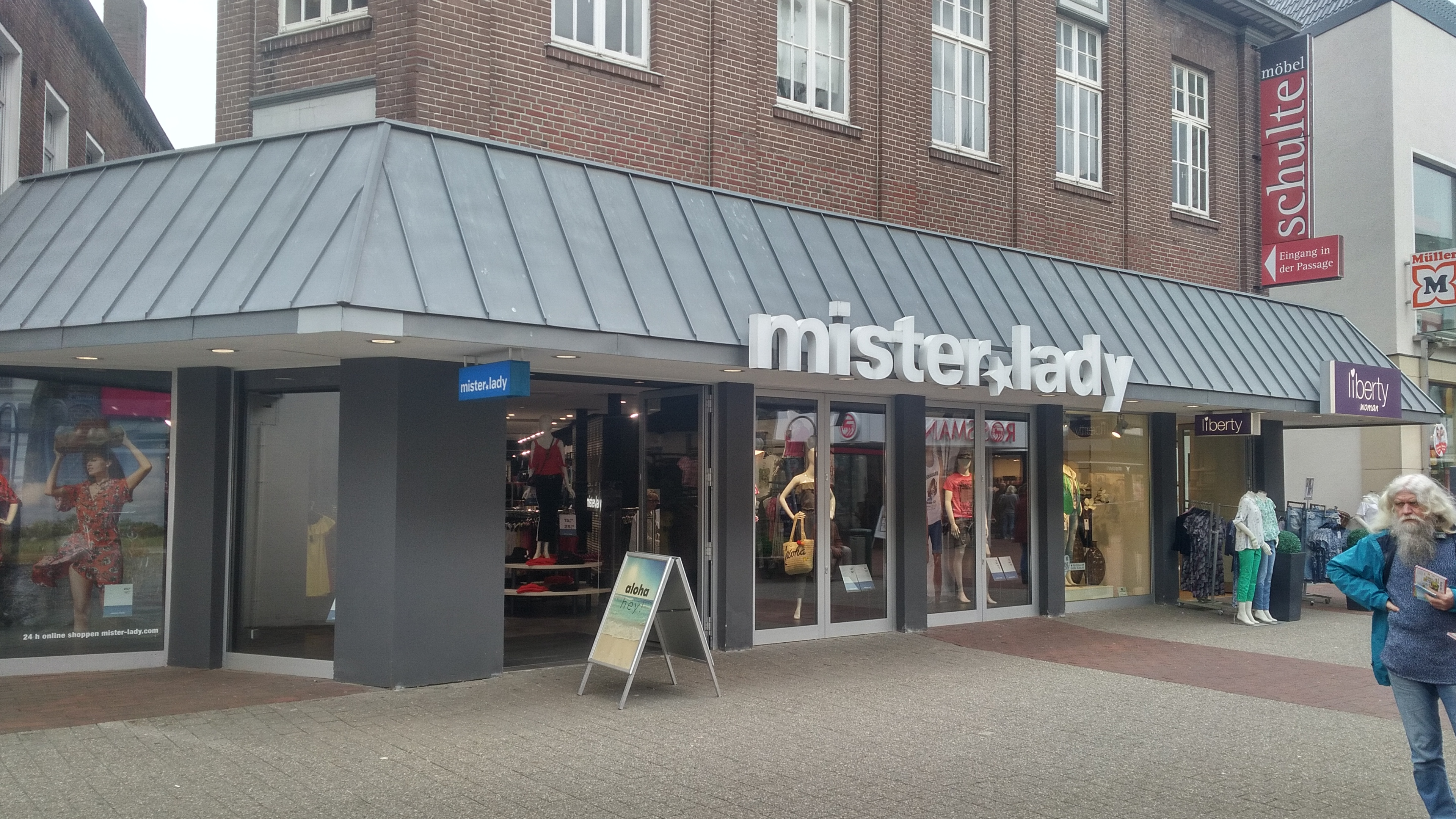 A local clothing store in the Low-Saxon city of Leer, East-Frisia.